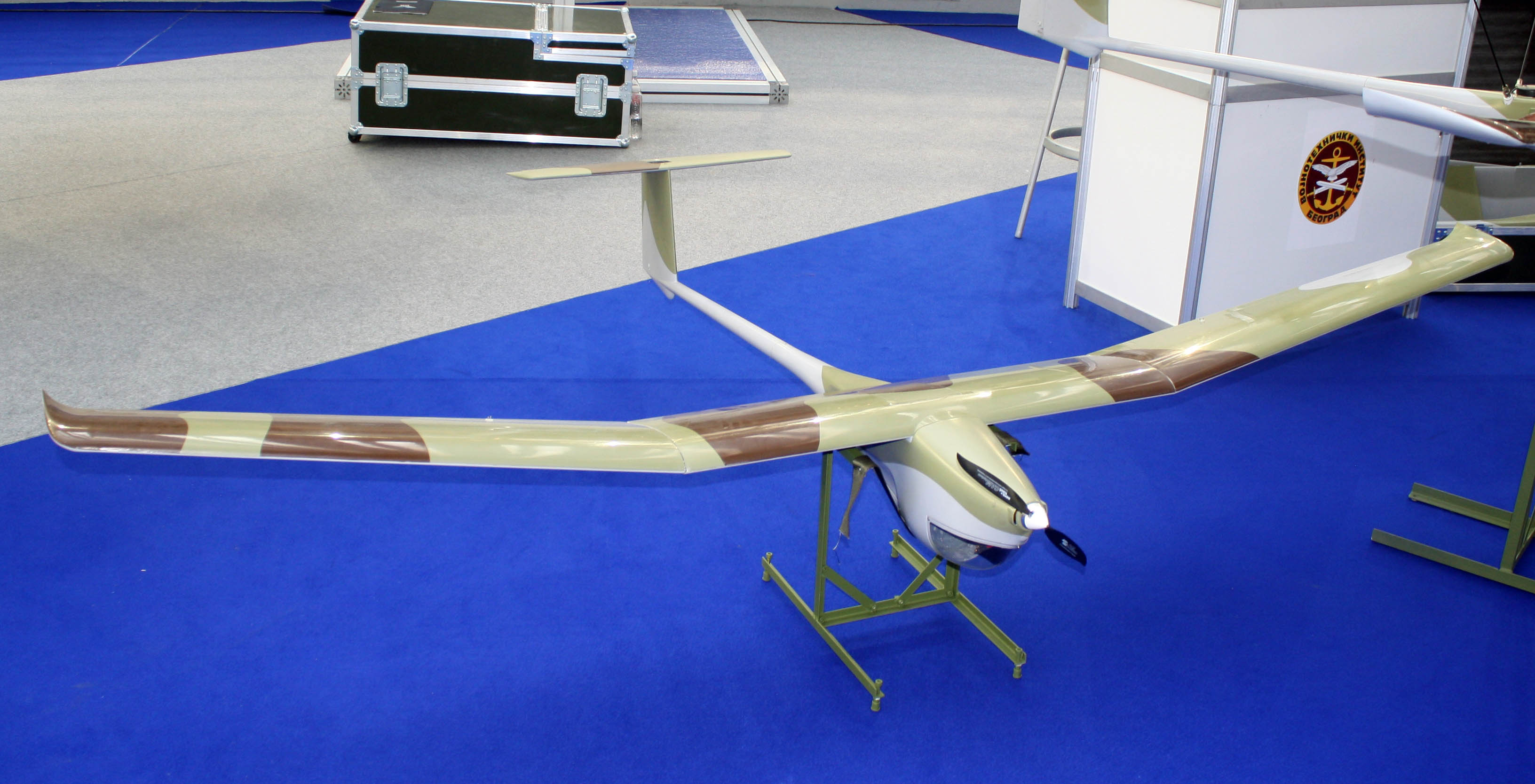 Serbia lightn UAV Vrabac on display at "Partner 2011" military fair.